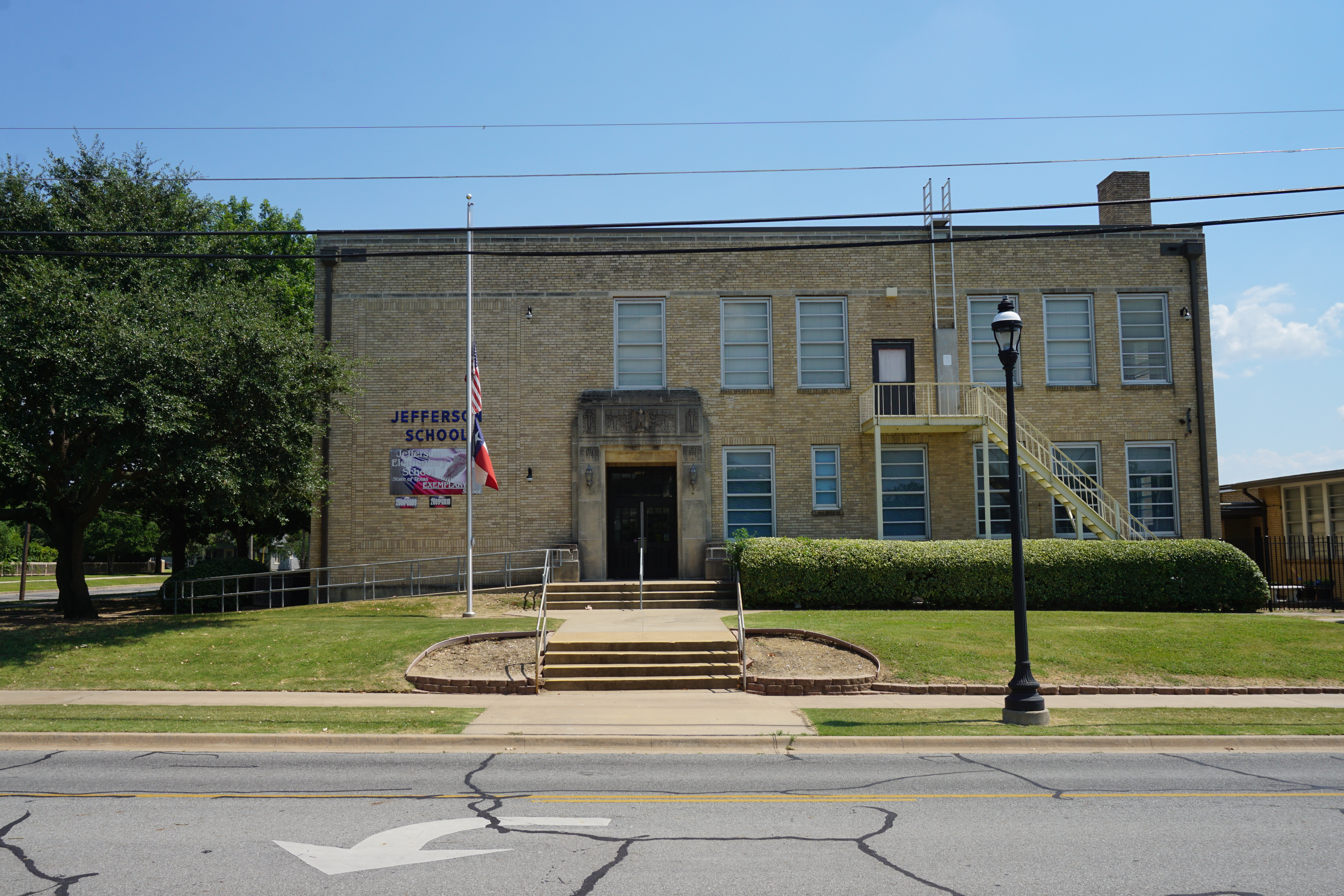 Jefferson Elementary School in Sherman, Texas (United States).